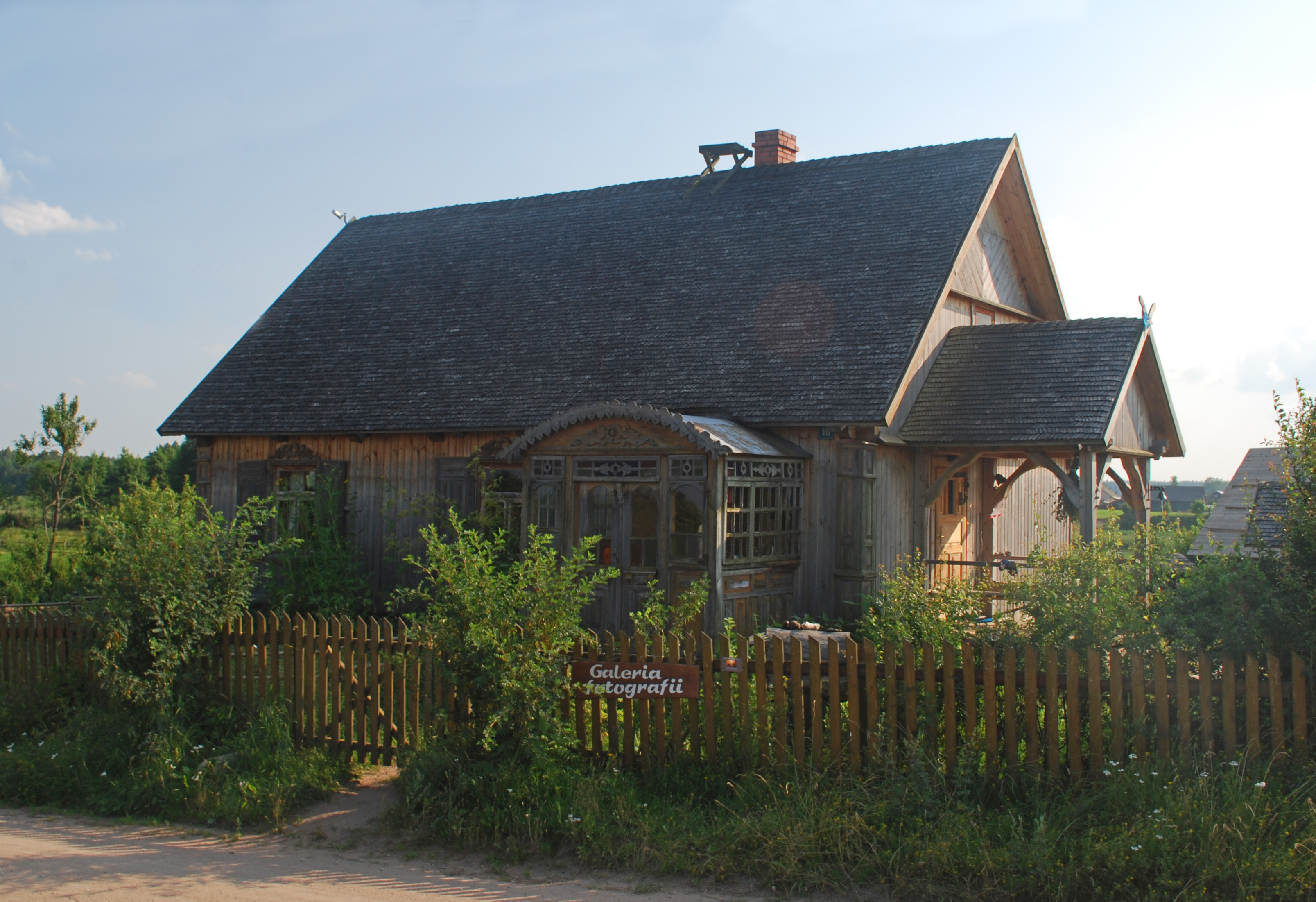 This photo from Podlaskie Voievodeship was taken during Polish Wikiexpedition 2009 set up by Wikimedia Polska Association. The making of this document was supported by Wikimedia Polska. Galeria fotograficzna prowadzona przez Jerzego Lecha i Piotra Malczewskiego w Budzie Ruskiej.